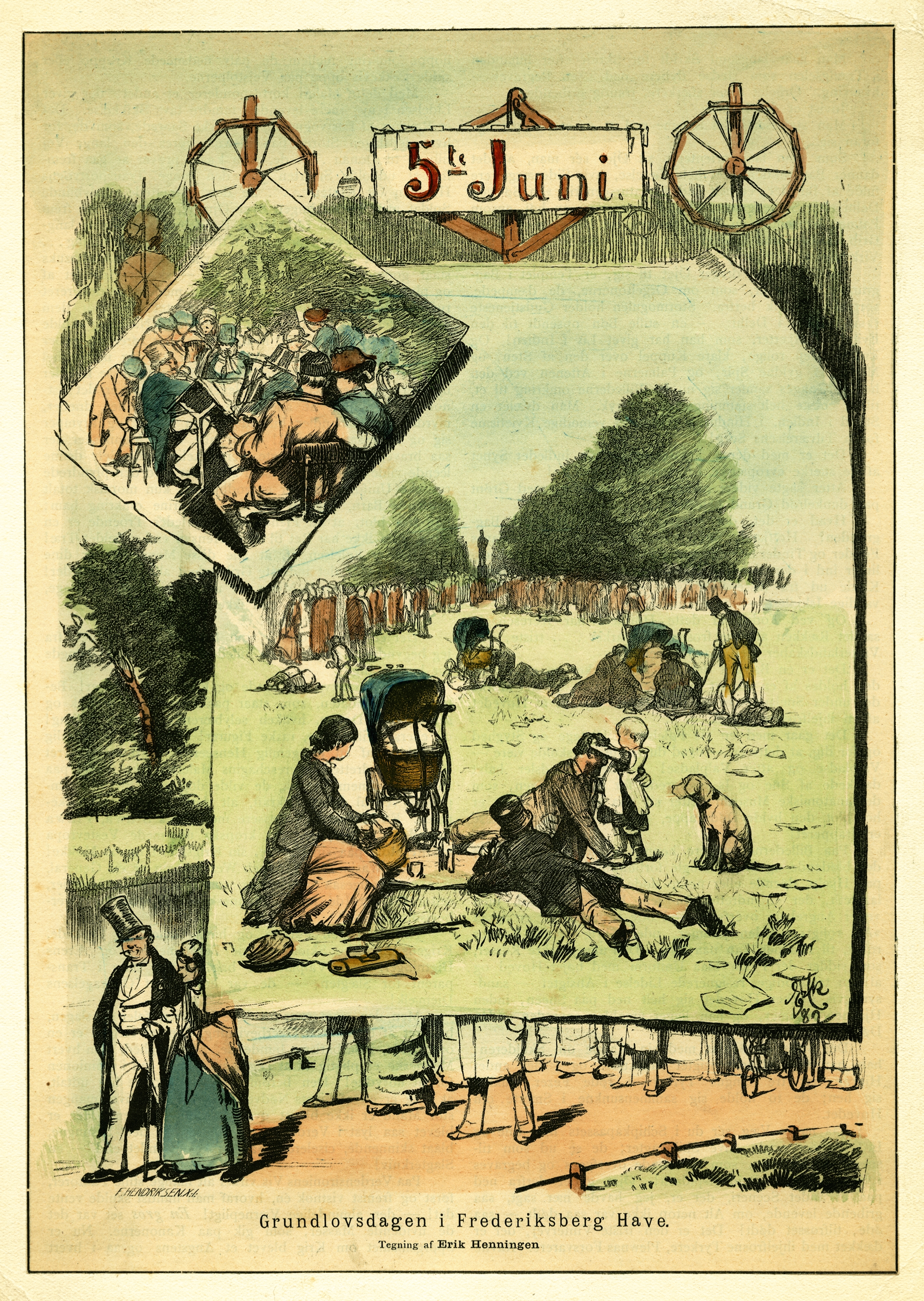 Grundlovsdag celebrations in Frederiksberg Have in Copenhagen, Denmark, 1882. Drawing by Erik Henningsen.